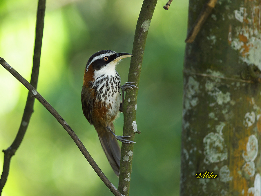 taken at Sun-Moon Lake, Taiwan.